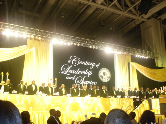 Alpha Phi Alpha Board members at Marriott Wardman Park in Washington, DC. for the centennial banquet.